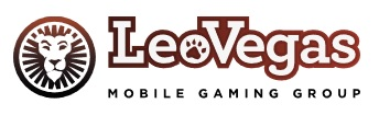 Logo for LeoVegasMobileGamingGroup